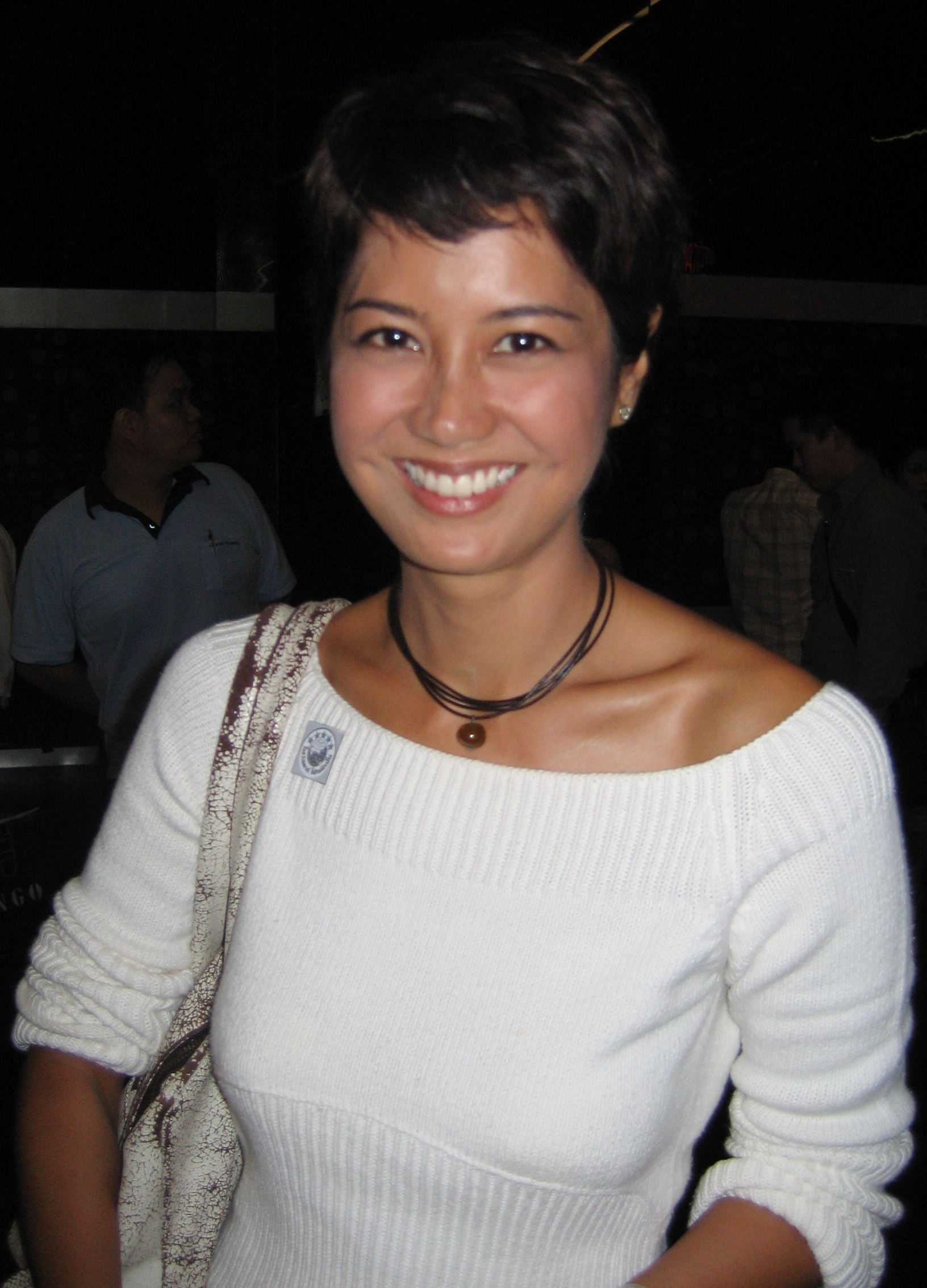 Director-producer Areeya Chumsai attends the Thai press preview for Ploy at SF World in CentralWorld, Bangkok.